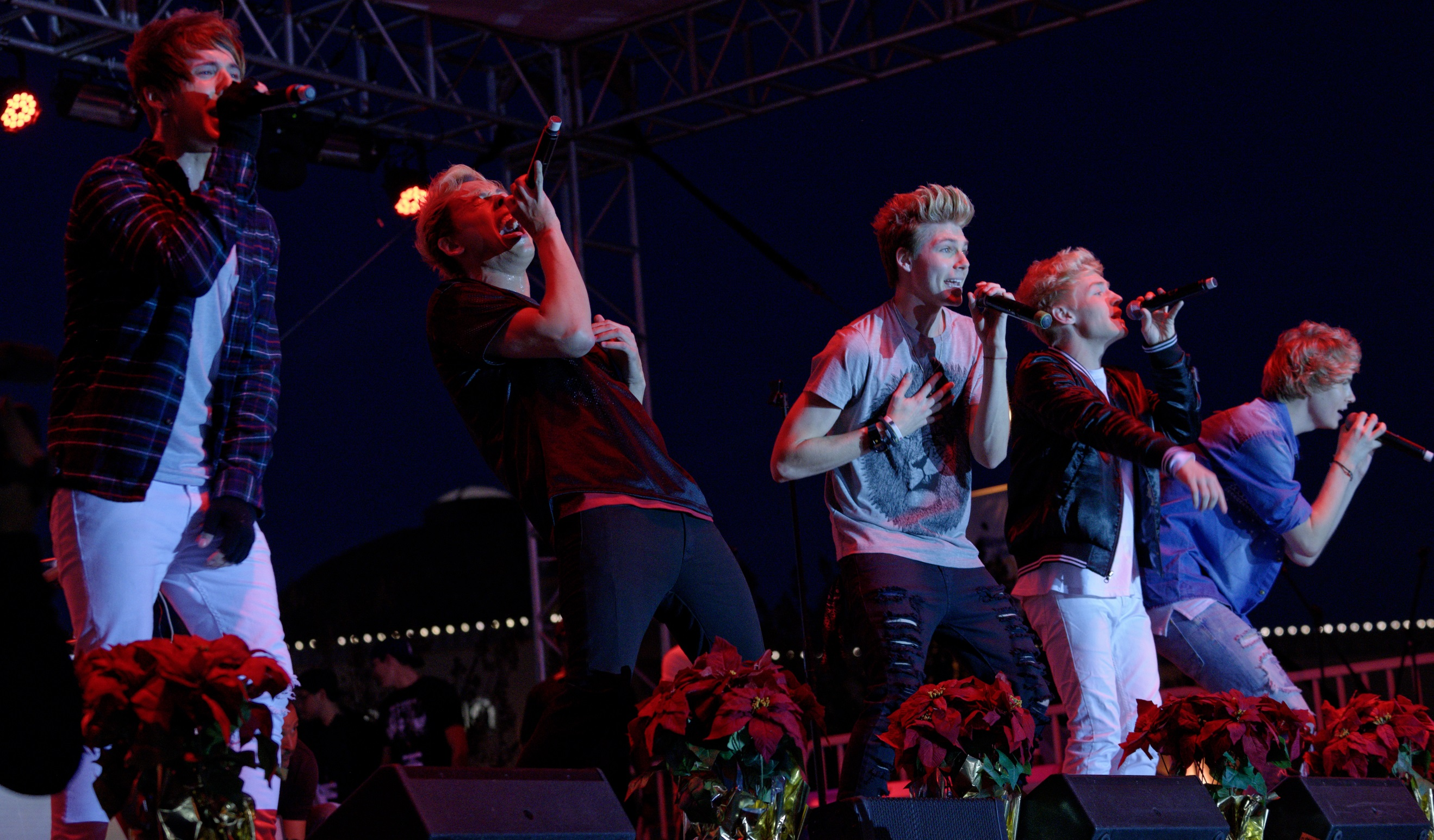 After Romeo performing at the Citadel Tree Lighting in 2014